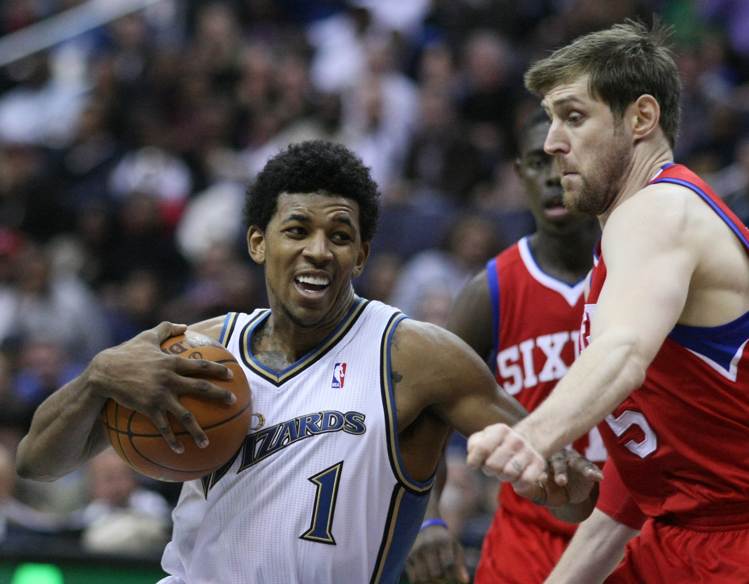 Washington Wizards v/s Philadelphia 76ers November 23, 2010